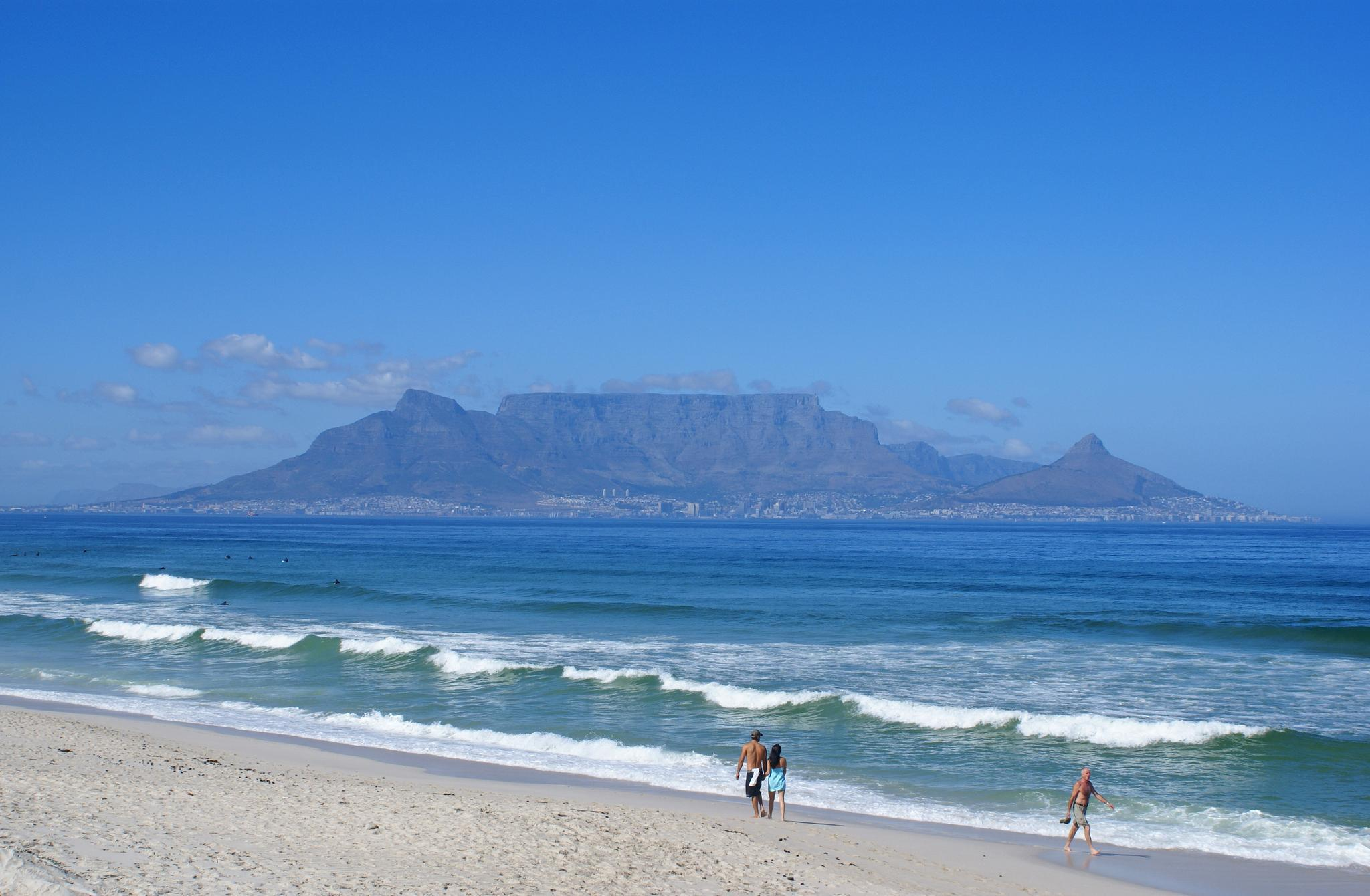 The classic front view!